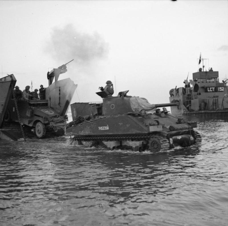 The British Army in Italy 1944 A Sherman tank comes ashore from a landing craft at Anzio in Operation Shingle — on 22 January 1944.